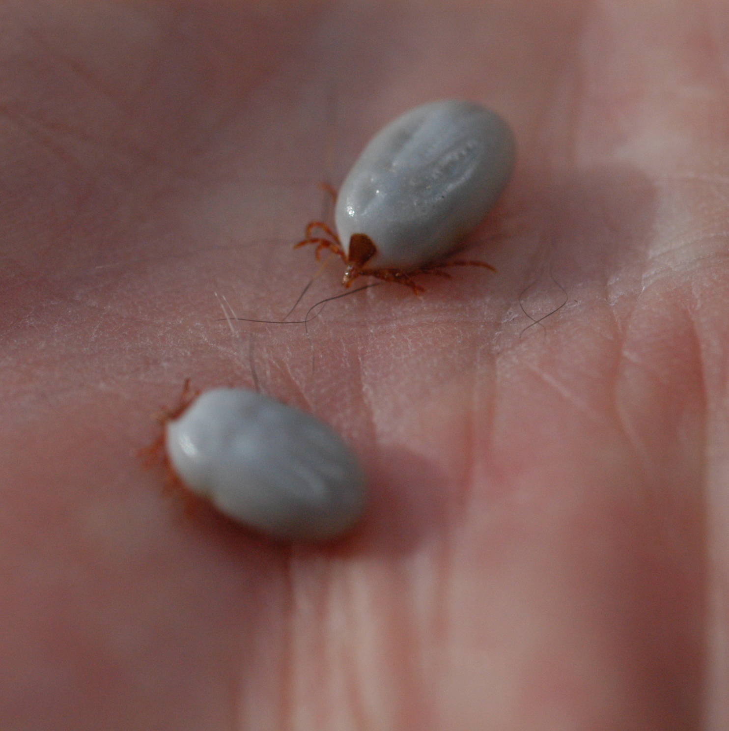 Bush Ticks found on a spotted-tailed quoll